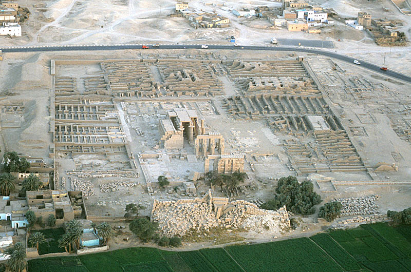 View to the Ramesseum, Luxor West Bank, Egypt